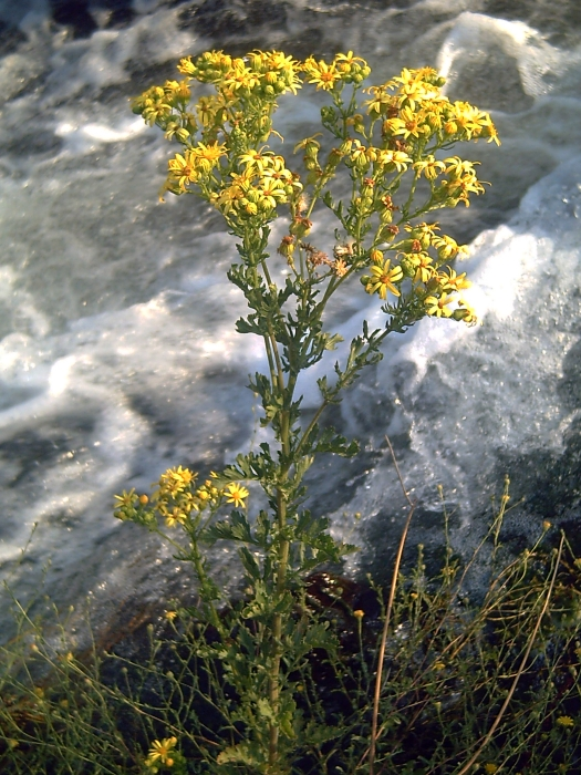 A work release by Javier martin, a close up Senecio jacobaea, in Pantano del Montoro, Ciudad Real, Spain 2006, July 15. A free donation to Wikipedia.